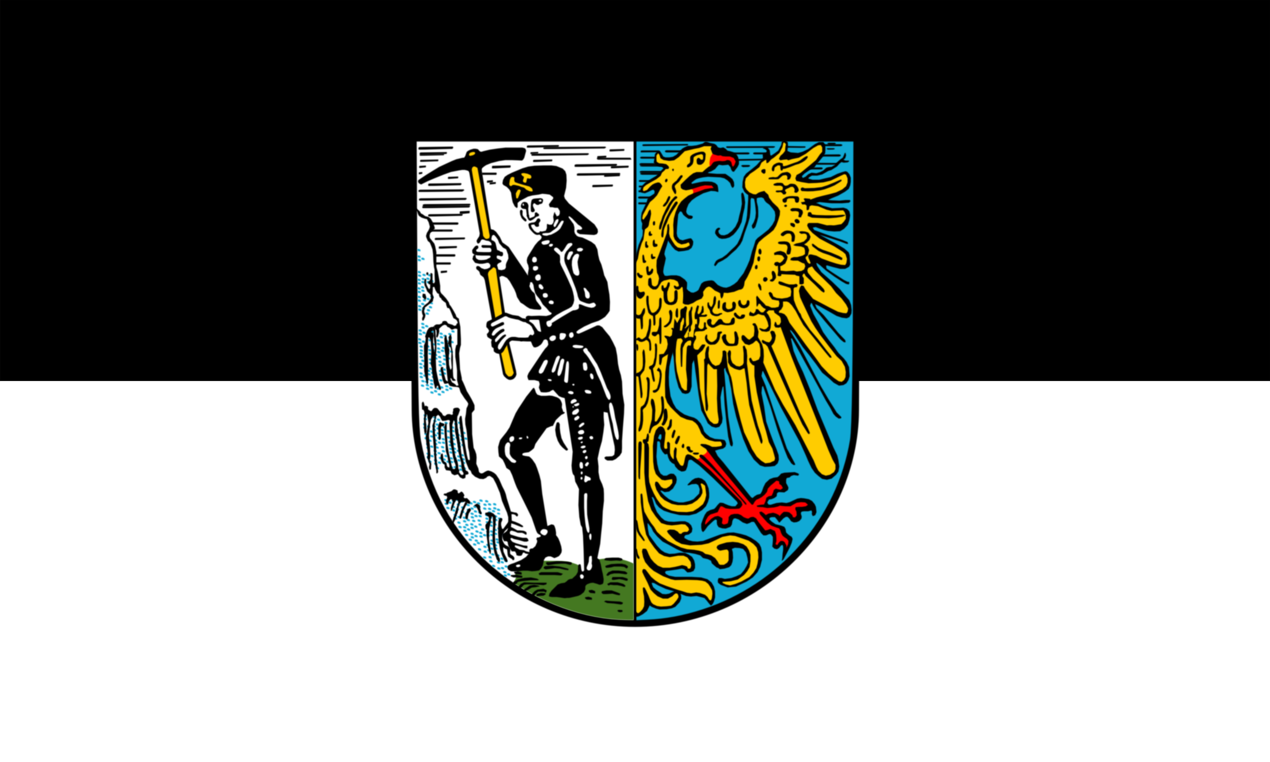 Flag of the city of Beuthen O.S. (today Bytom)